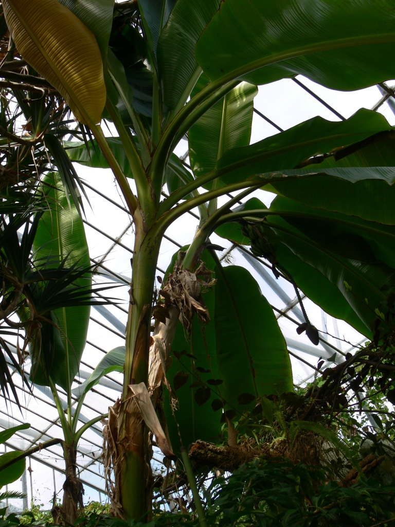 Musa sikkimensis from RBGE Royal Botanic Garden Edinburgh: Accession number 1997.2809 A